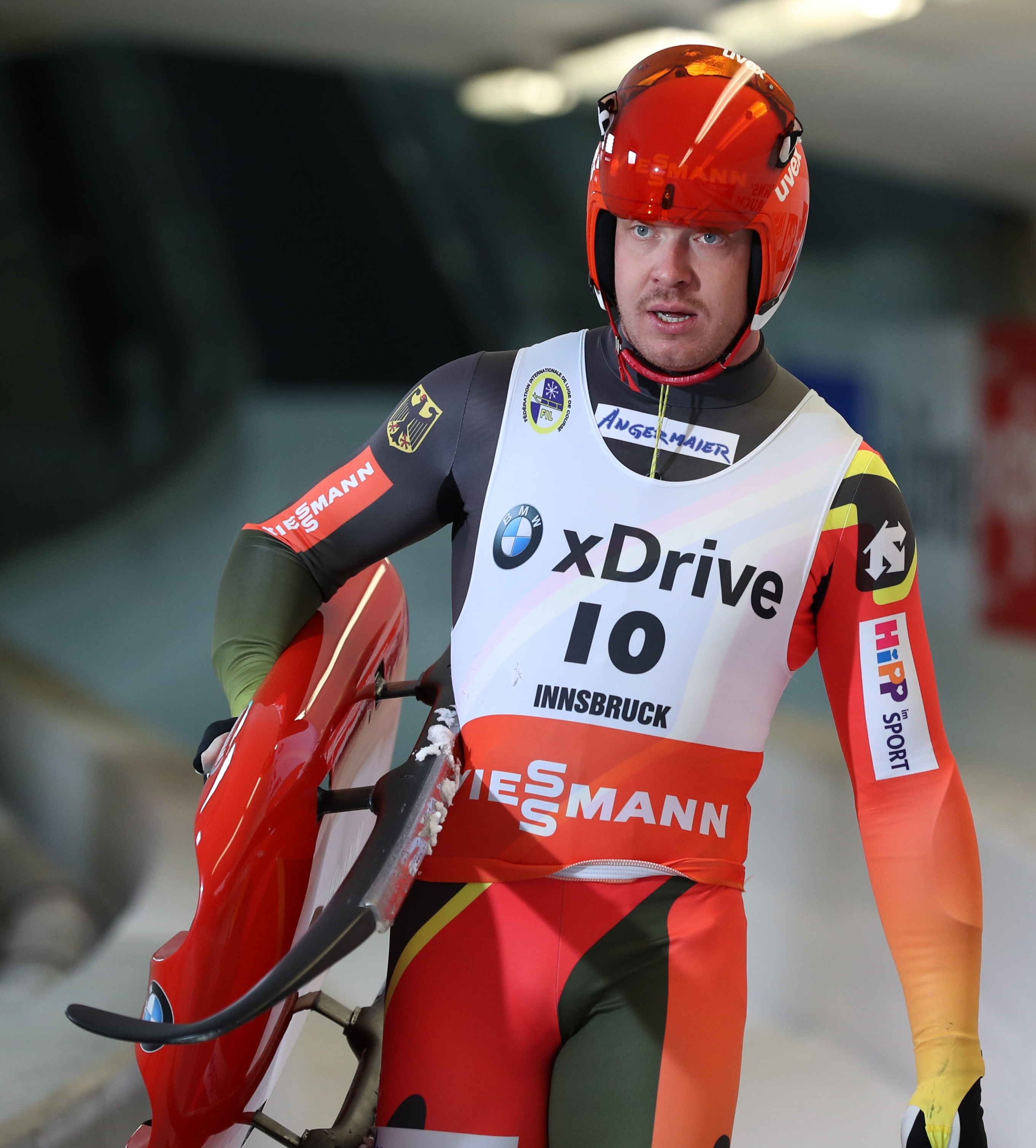 Men's Sprint World Cup race at the 2018/19 Luge World Cup in Innsbruck-Igls